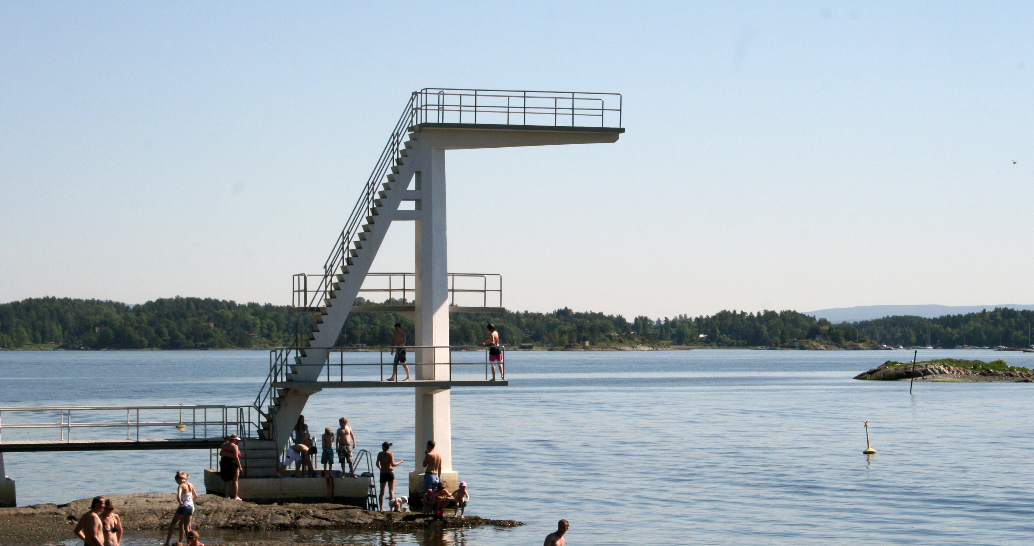 From the public beach at Hvalstrand in Asker, Norway. Architect: Andre Peters. Opened 1934; reconstructed mid-1990s.